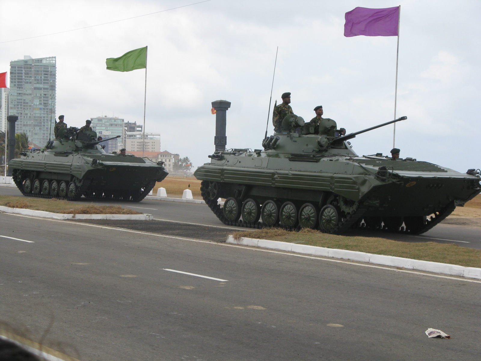 BMP-2 Infantry Fighting Vehicles - Sri Lanka Army